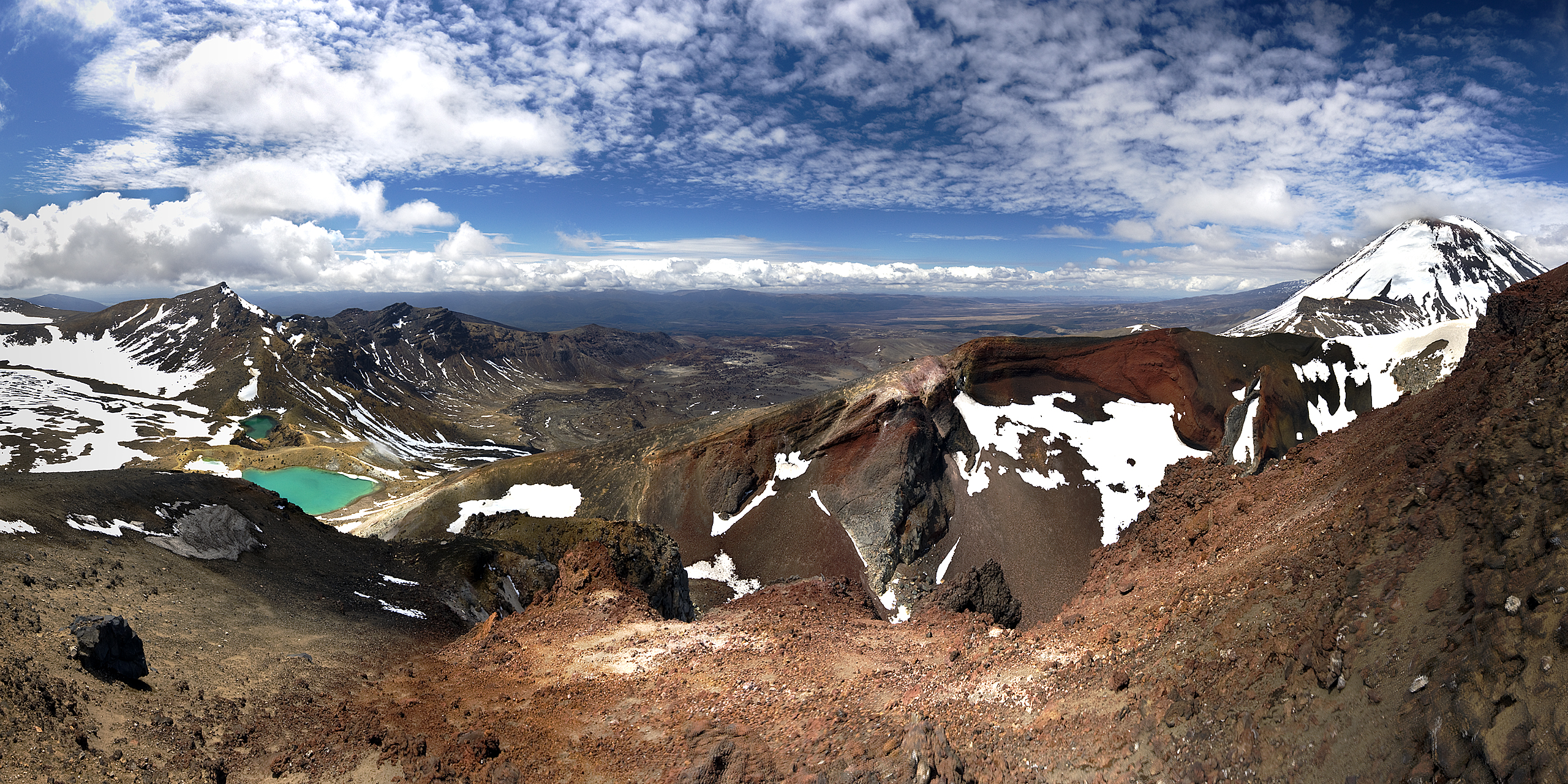 Emerald Lakes, Red Crater, and Mt Ngauruhoe, viewed from the Tongariro Alpine Crossing, which is the most popular one day hike in New Zealand. It is also part of the Tongariro Northern Circuit. Tongariro National Park, New Zealand.